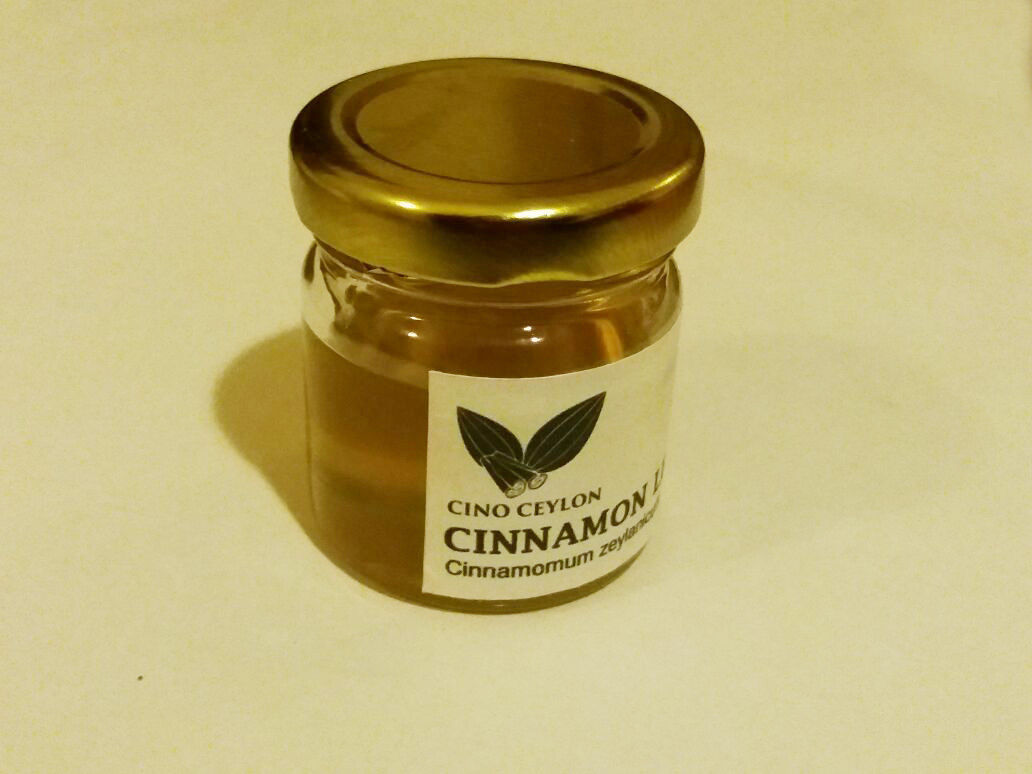 Cinnamon leaf oil 25ml Bottle